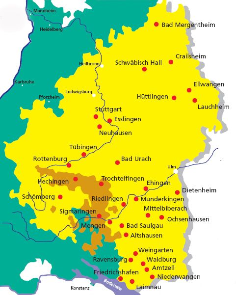 locations of vigilance committees in Württemberg